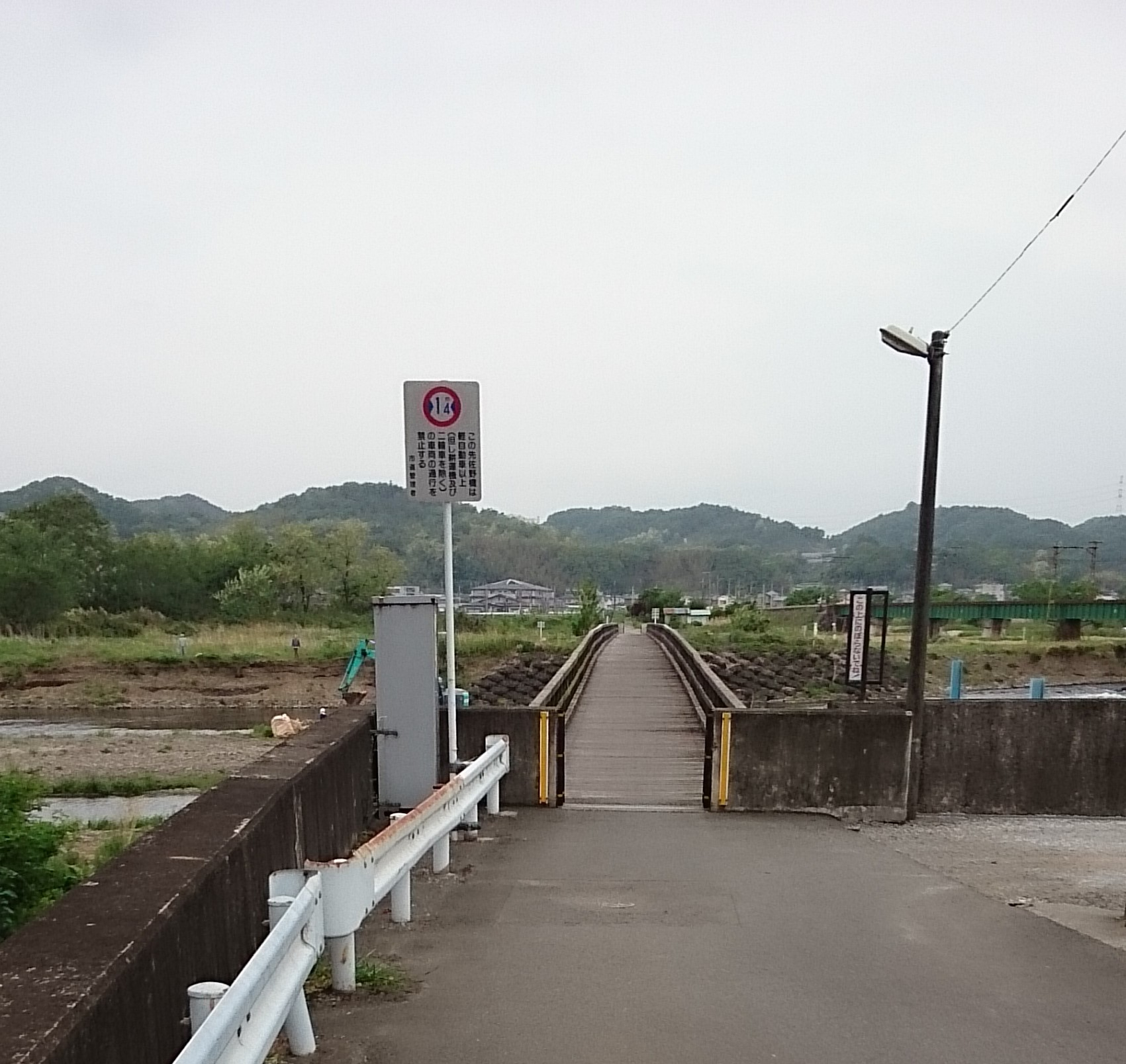 Wooden bridge of "Sanobashi" in Takasaki city, Gunma Prefecture